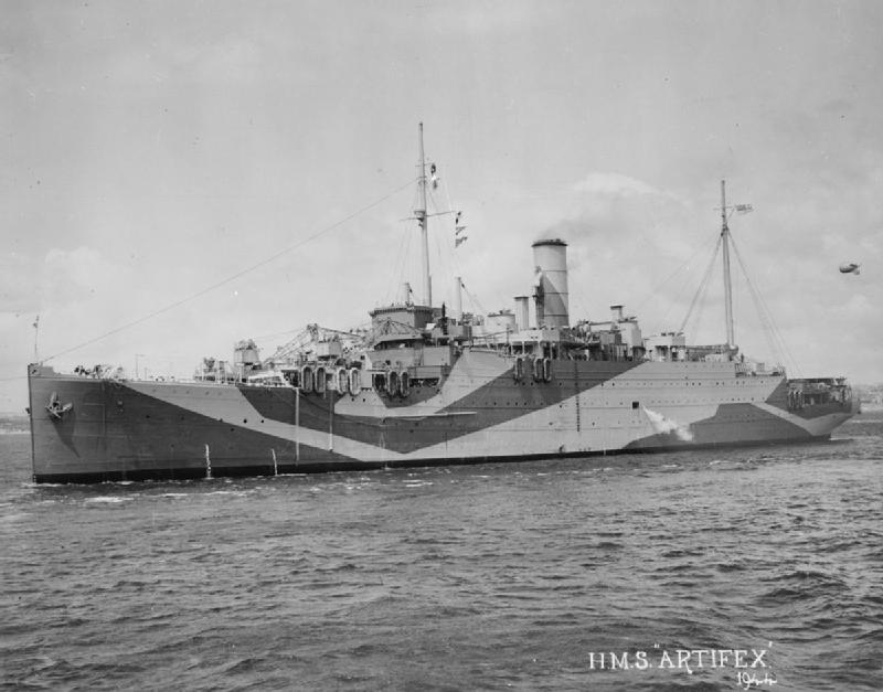 British repair ship HMS ARTIFEX underway, coastal waters.